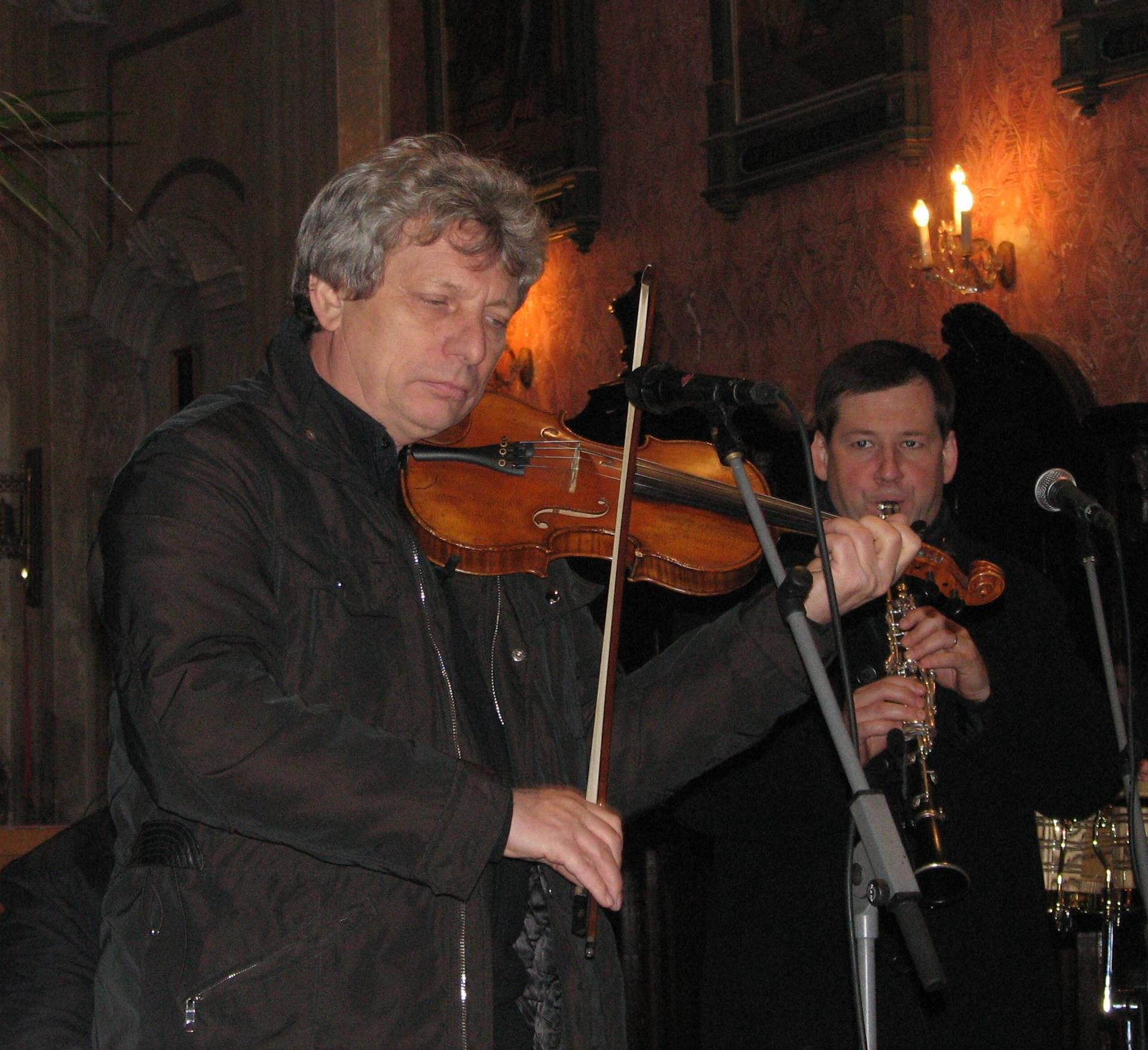 Hradistan